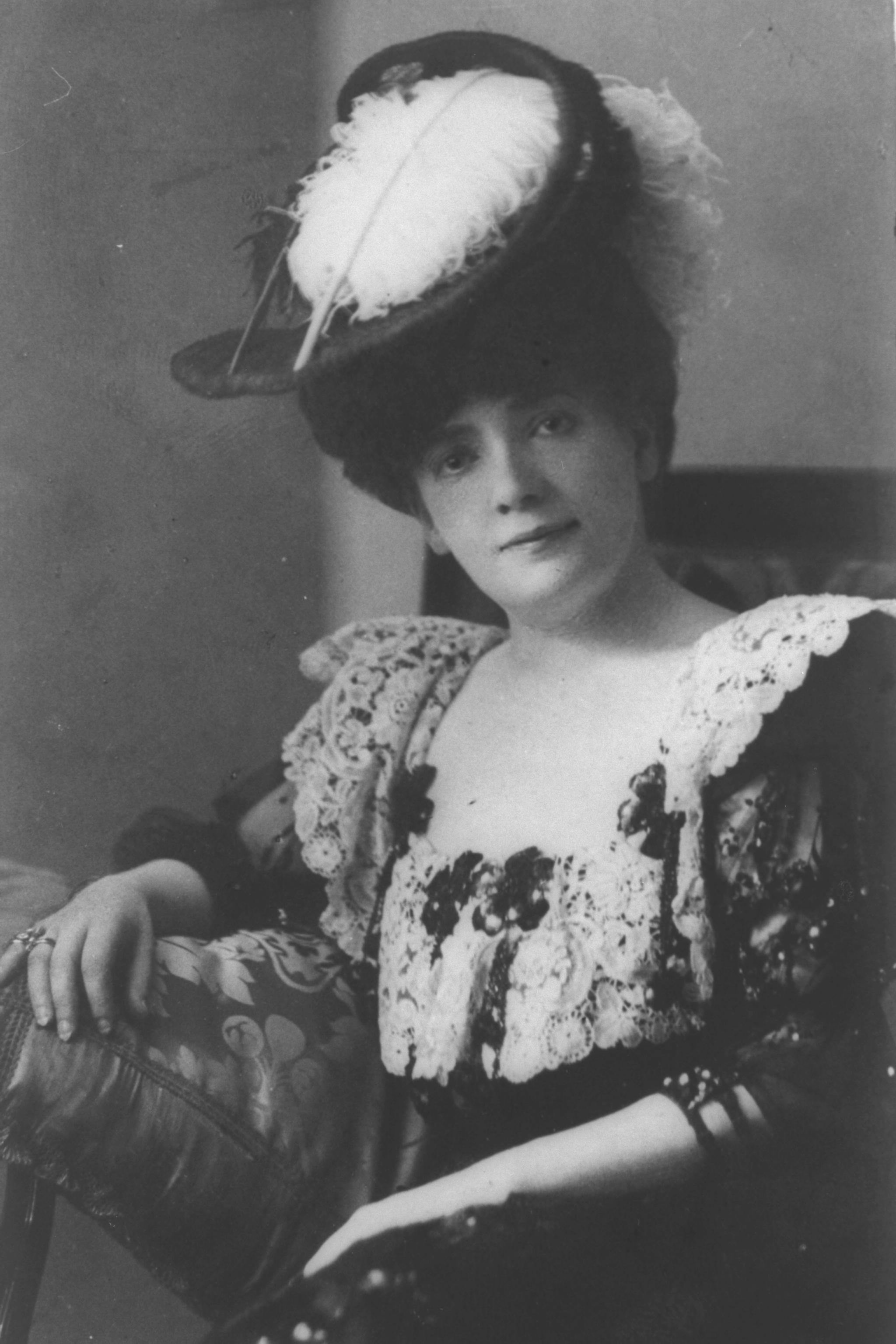 THEODOR HERZL'S WIFE, JULIA, IN 1898. פורטרט של יוליה, רעייתו של תיאודור הרצל - שנת 1898.